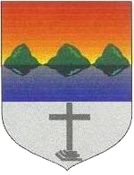 Isotipo Municipal de Trinidad, Santa Barbara